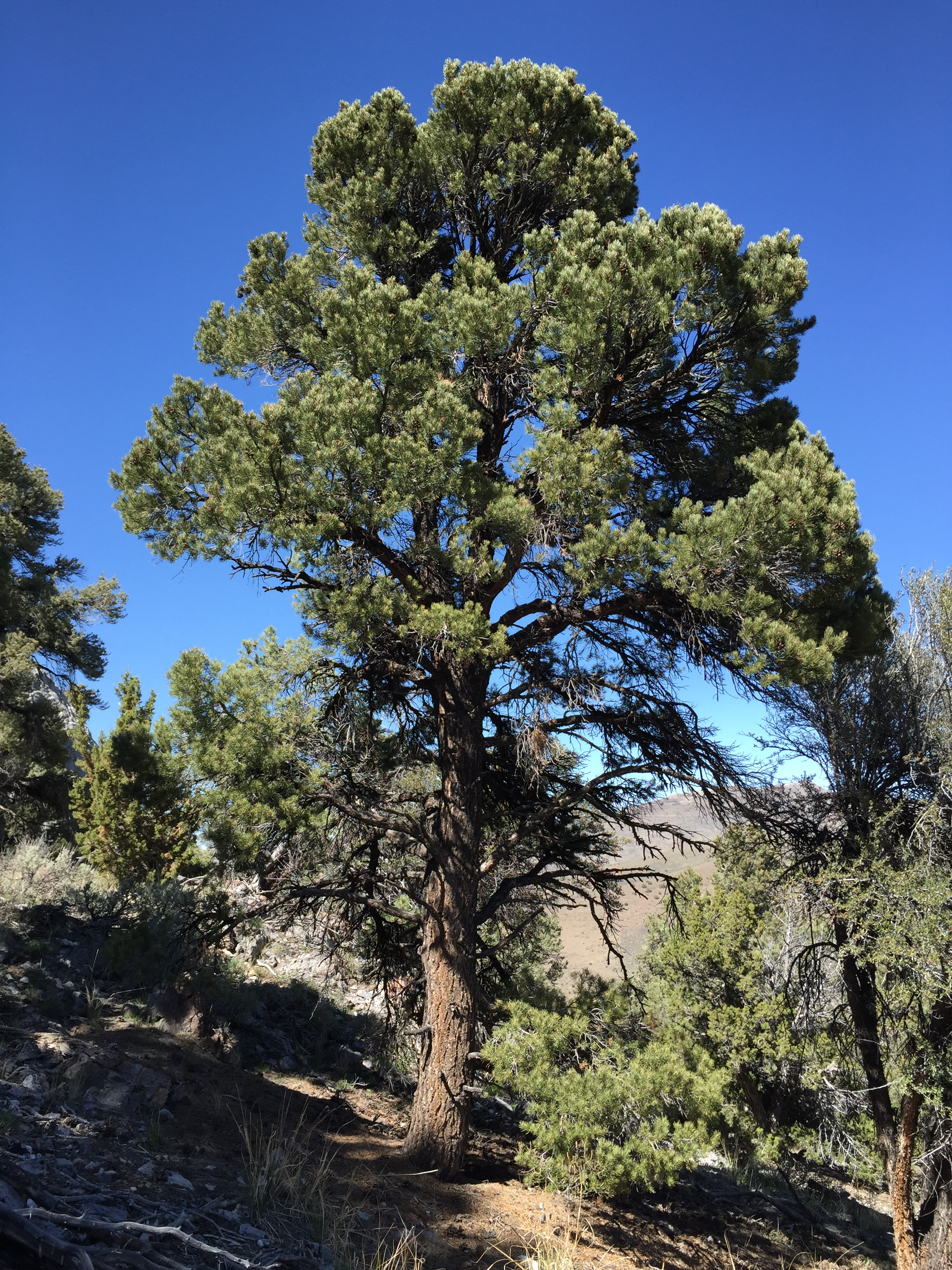 An older Single-leaf Pinyon on the north wall of Maverick Canyon, Nevada